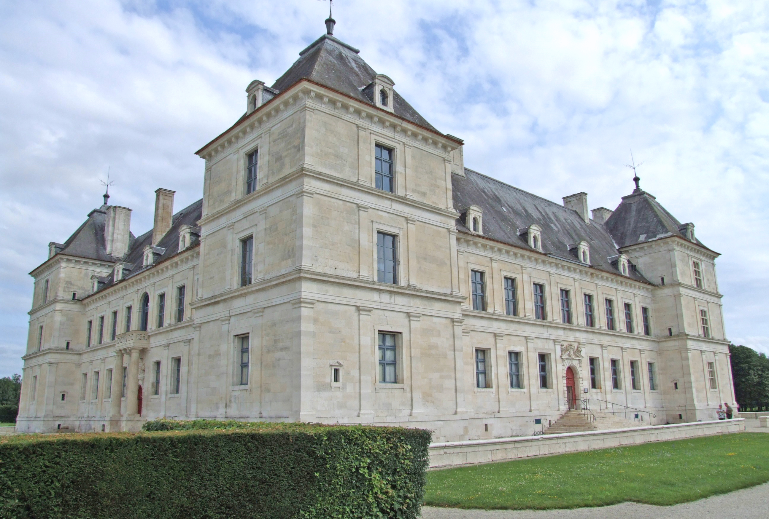 Perspective view of the north pavilion of the Château d'Ancy-le-Franc with the entrance facade to the left (Yonne, Bourgogne, France)